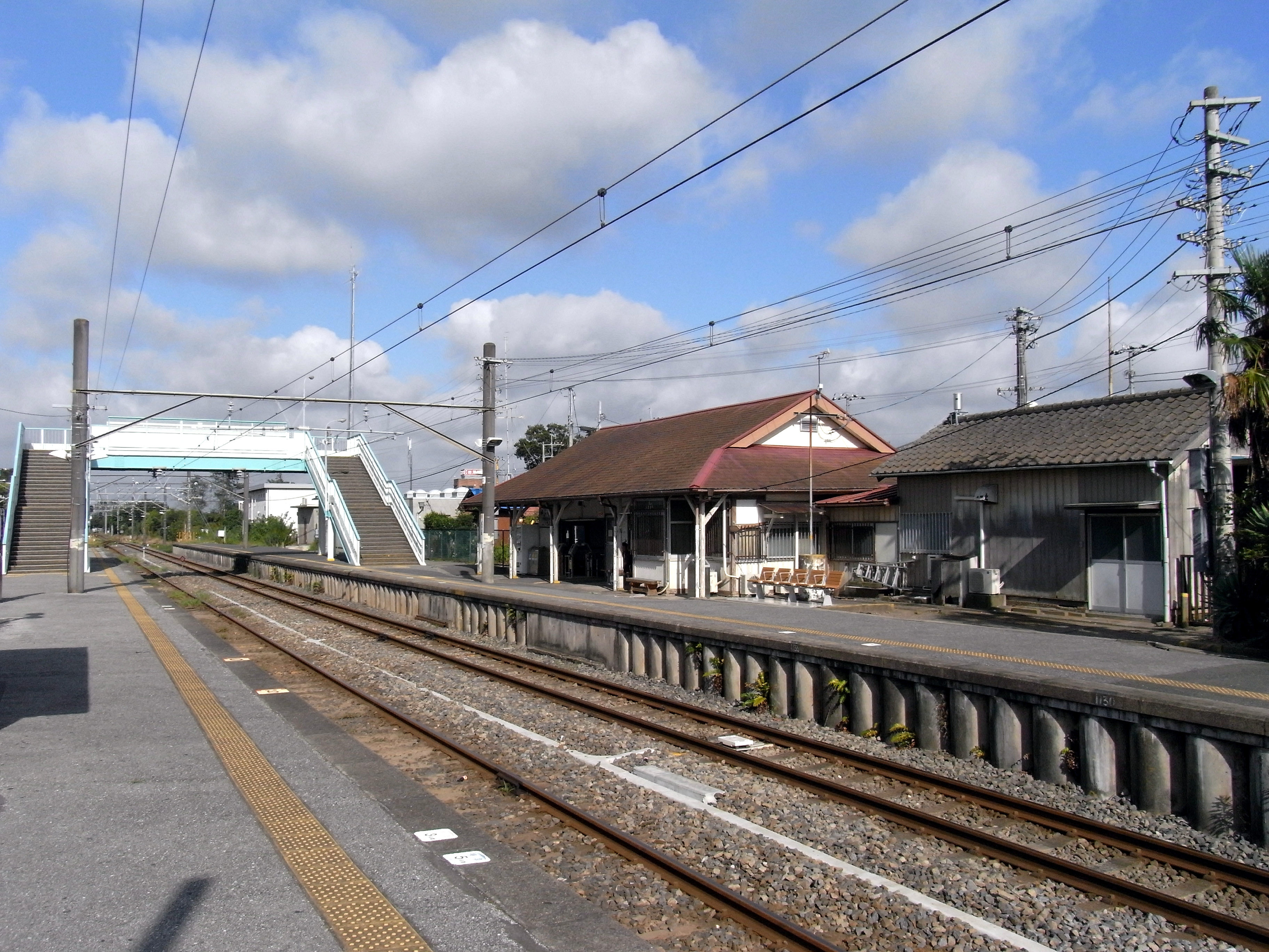 Yokoshiba is an old station of JR Sobu line in Japan. This is the whole view from the end of second platform.